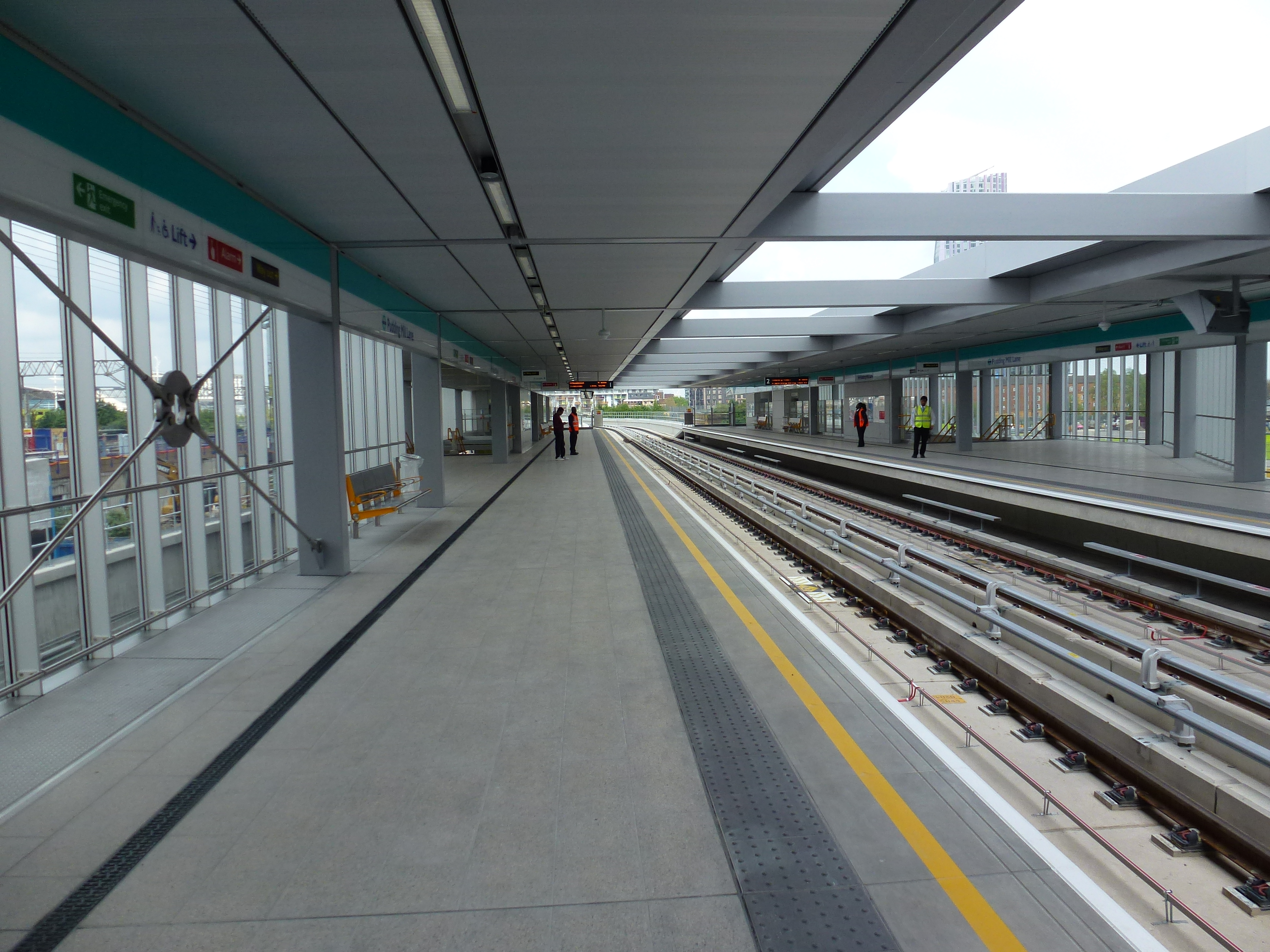 New station, rebuilt because of Crossrail